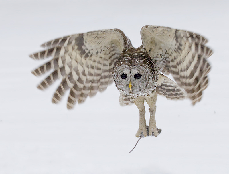 Barred Owl hunting in winter. Photograph taken by David Hemmings